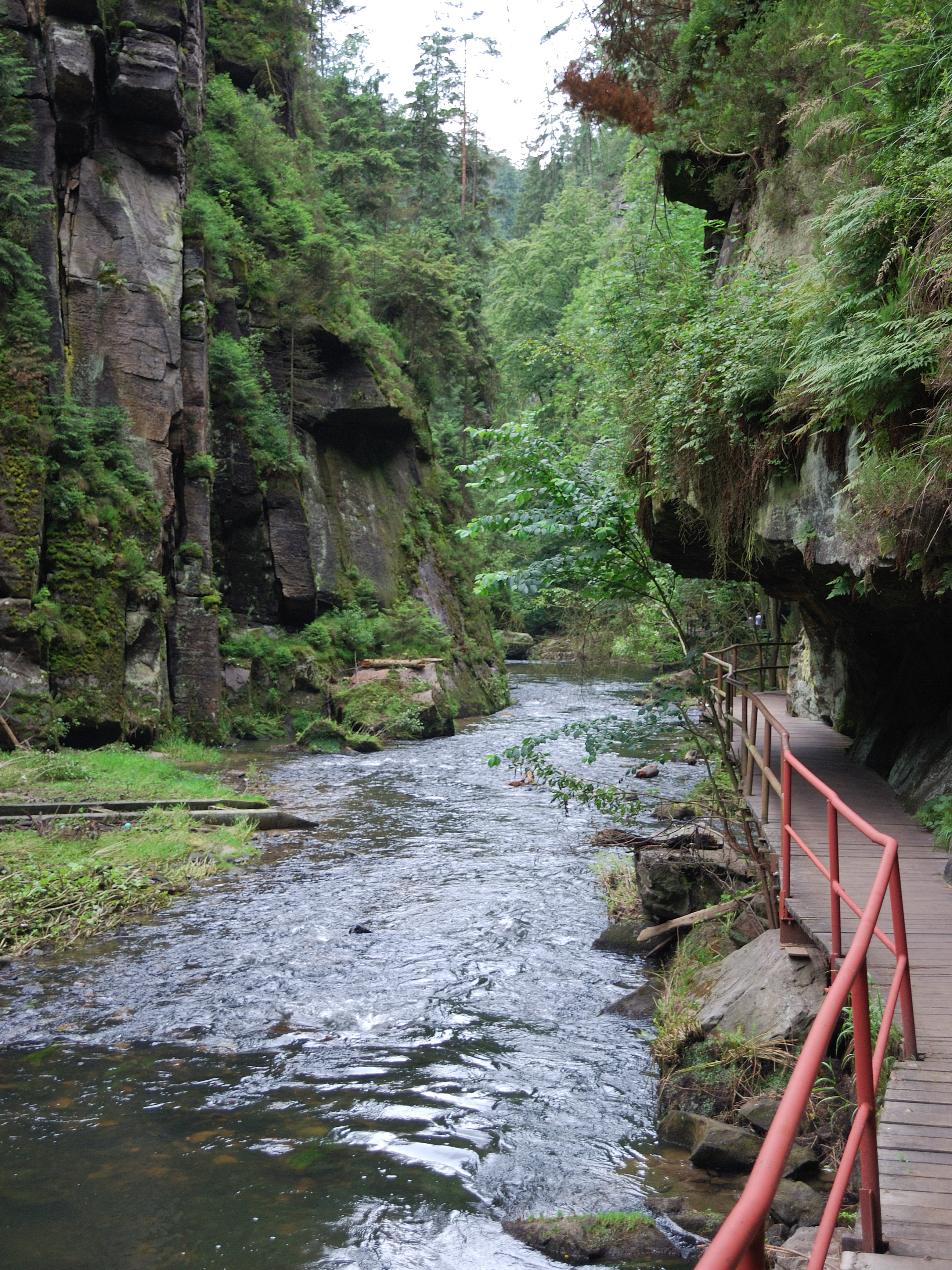 Edmund's Canyon of the River Kamenice in the National Park České Švýcarsko, Czech Republic.